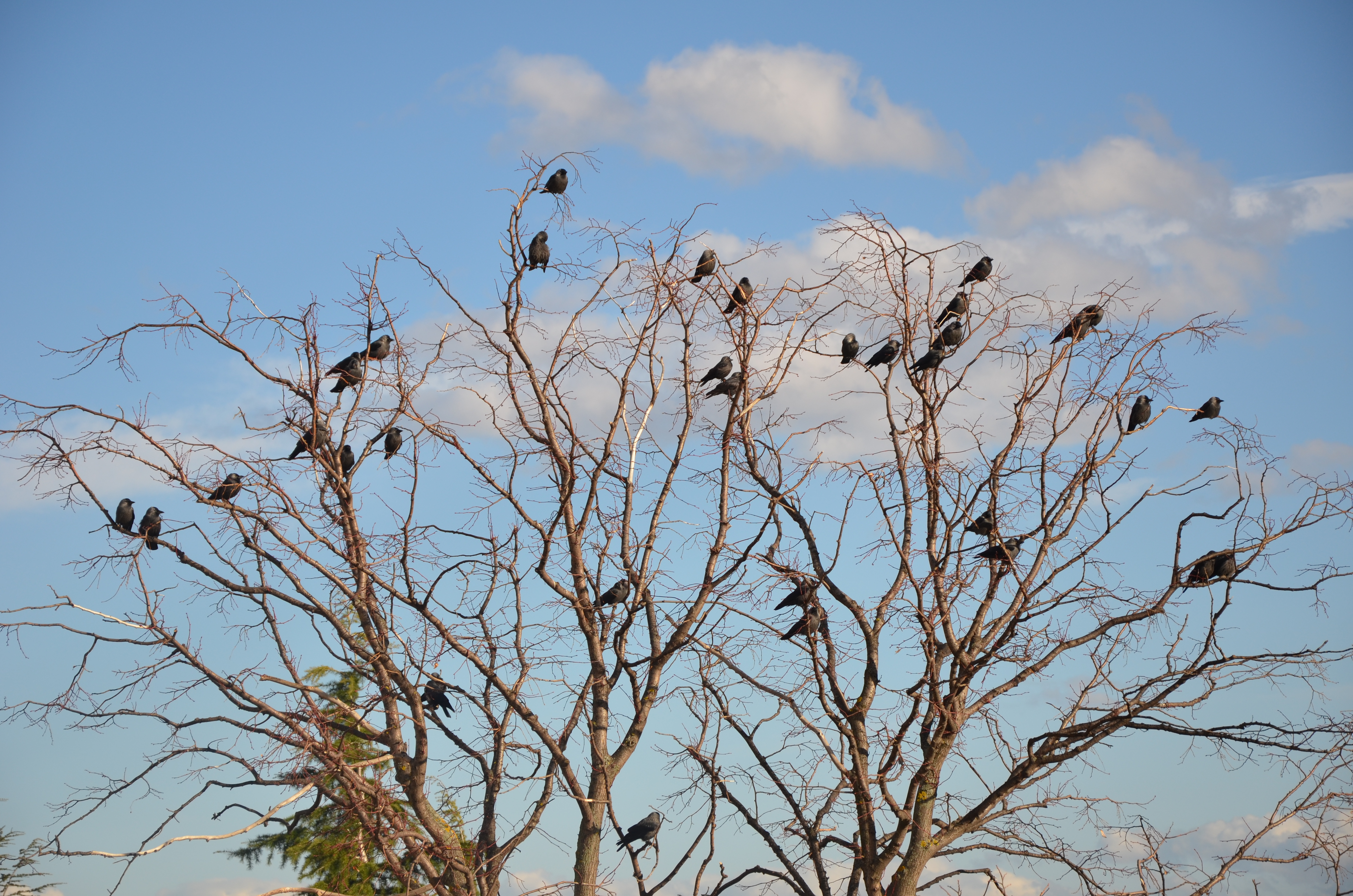 Jackdaws Coloeus monedula in a tree, Peja, Kosovo